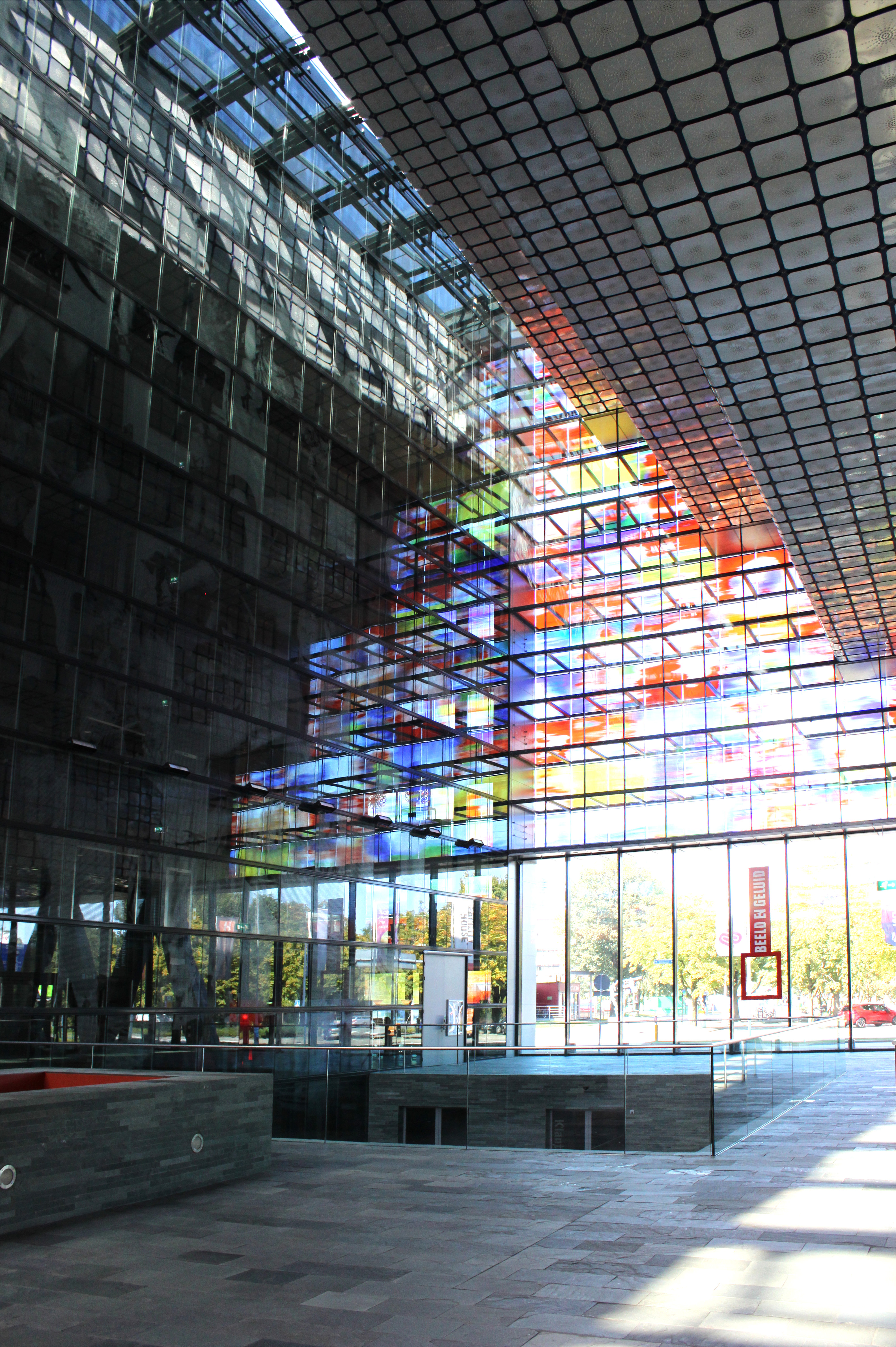 Netherlands Institute for Sound and Vision (Nederlands Instituut voor Beeld en Geluid) in Hilversum, the Netherlands.